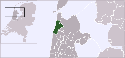 Locator map of Dutch municipalities in Noord-Holland (LocatieZijpe.png)